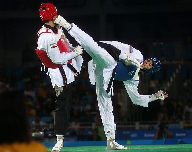 Milad Kharchegani and Khodabakhshi at the 2016 Summer Olympics